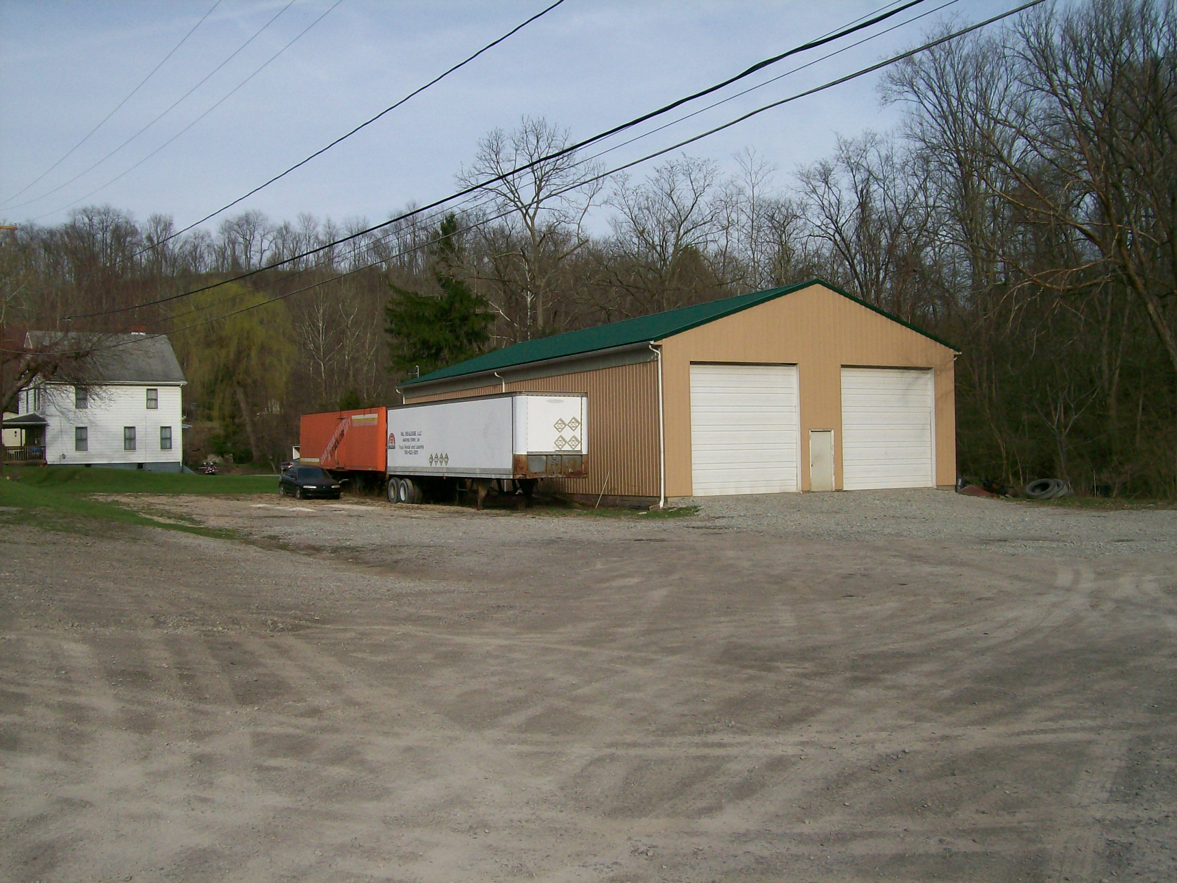 The Beagle Hotel Site west of Valley Grove, WV on Route 40. The clapboard building was torn down and a garage was built on the site. The site is still listed on the NRHP. Taken looking west over the site on April 2, 2010.